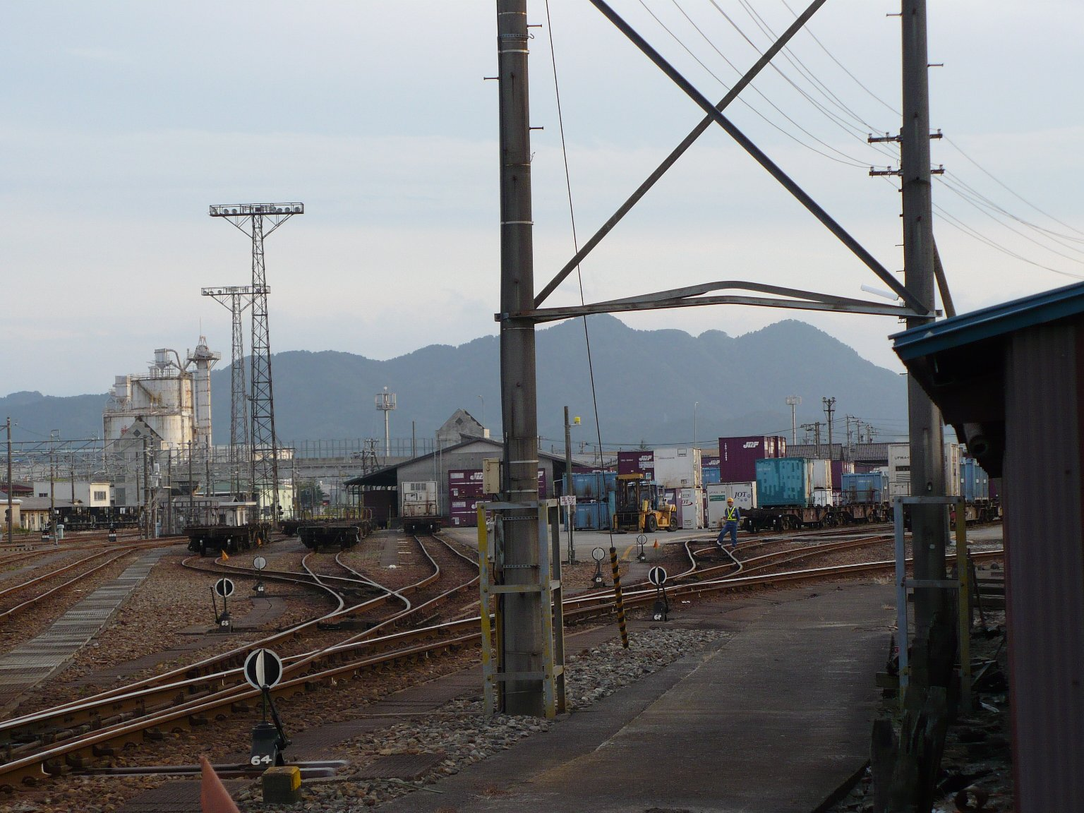 Cargo handling tracks of Minami-Fukui freight station operated by Japan Freight Railway Company (JR-Freight), Fukui, Fukui, Japan. The photo was taken from public road at the entrance of the station.